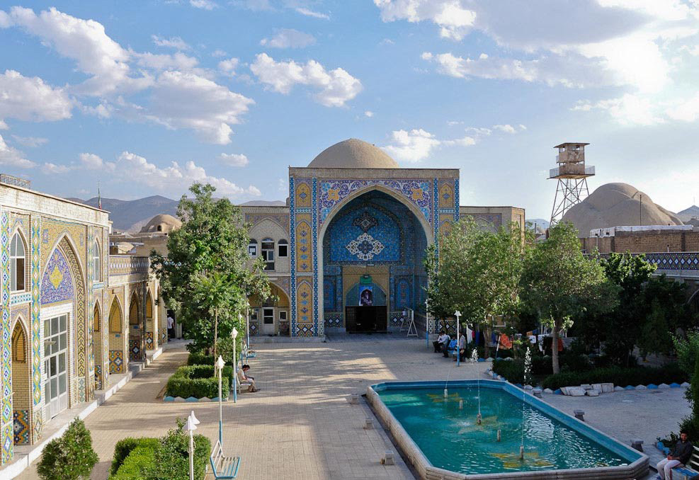 Imam Khomeini Hawsa (former name:Sepahdār school) is most famous religious school in Markazi province and one of the oldest buildings in Arak. This building can be categorized as Safavid Architecture and after 1979 Revolution, renamed to Imam Khomeini Seminary in honor of Ruhollah Khomeini that educated in the seminary.